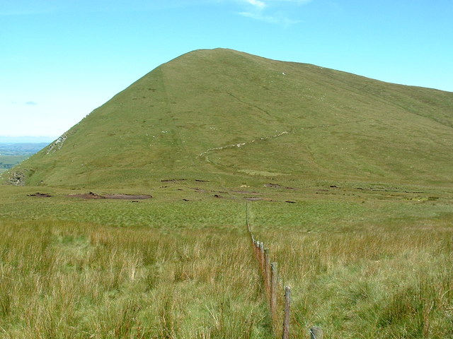 Esgeiriau Gwynion from Bwlch Sirddyn A typical grassy mountainside on the east side of the Arans.